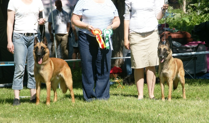 Two Belgian Shepherds, variation Malinois in a dog show. The dog on the left was the best of breed (red-yellow ribbon) and the dog on the right was the best of opposite sex (green-white ribbon).